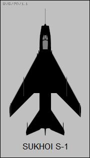 3-view silhouettes of the Sukhoi S-1